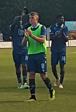 Players of the HFX Wanderers after a 2019 Canadian Championship match at Wanderers Grounds in Halifax, Nova Scotia, on 10 July 2019.